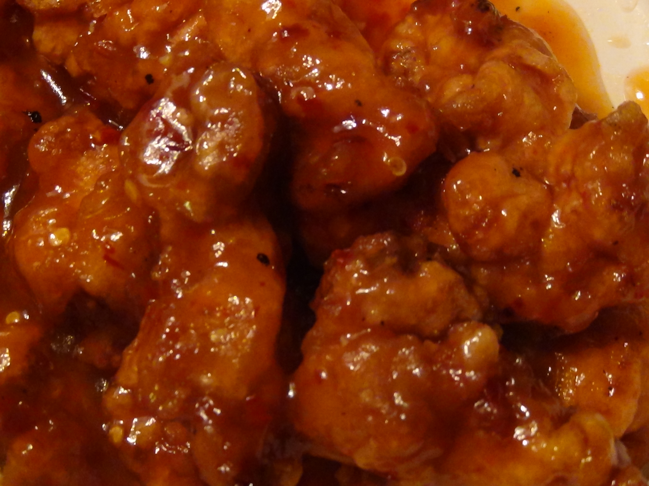 General Chow Chicken